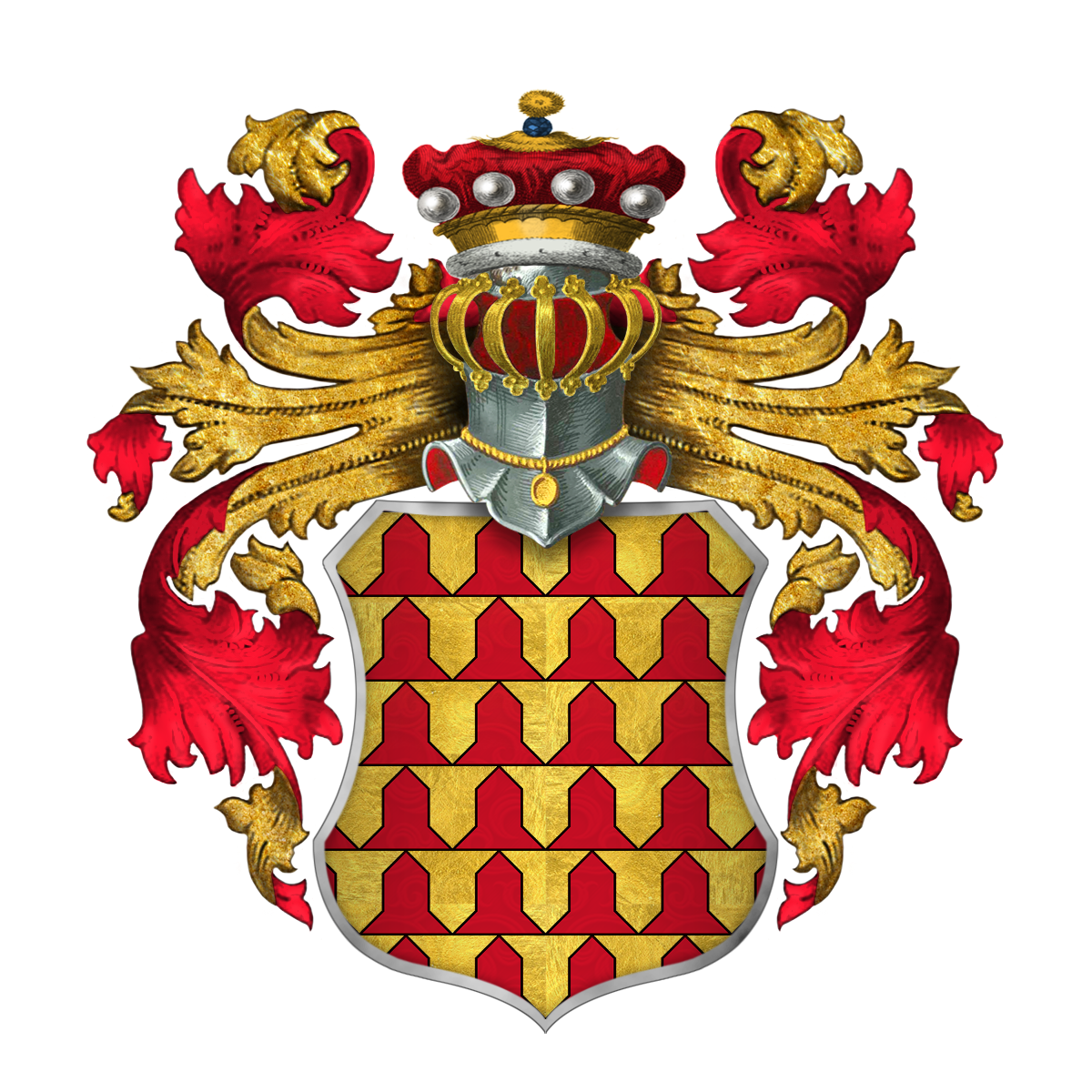 Coat of arms of Ferrers, Barons Ferrers of Chartley